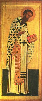 Vasiliy_Veliky (Basil of Caesarea). The Icon from the Church of Laying Our Lady’s Holy Robe from the village of Borodava near Ferapontov Monastery.